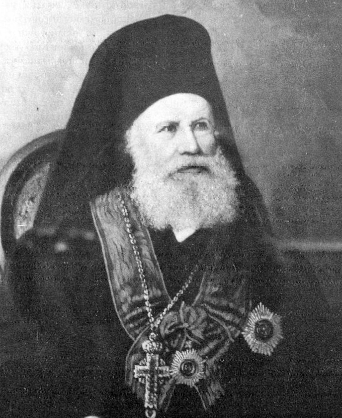 Kallinikos of Alexandria (1858 - 1861)